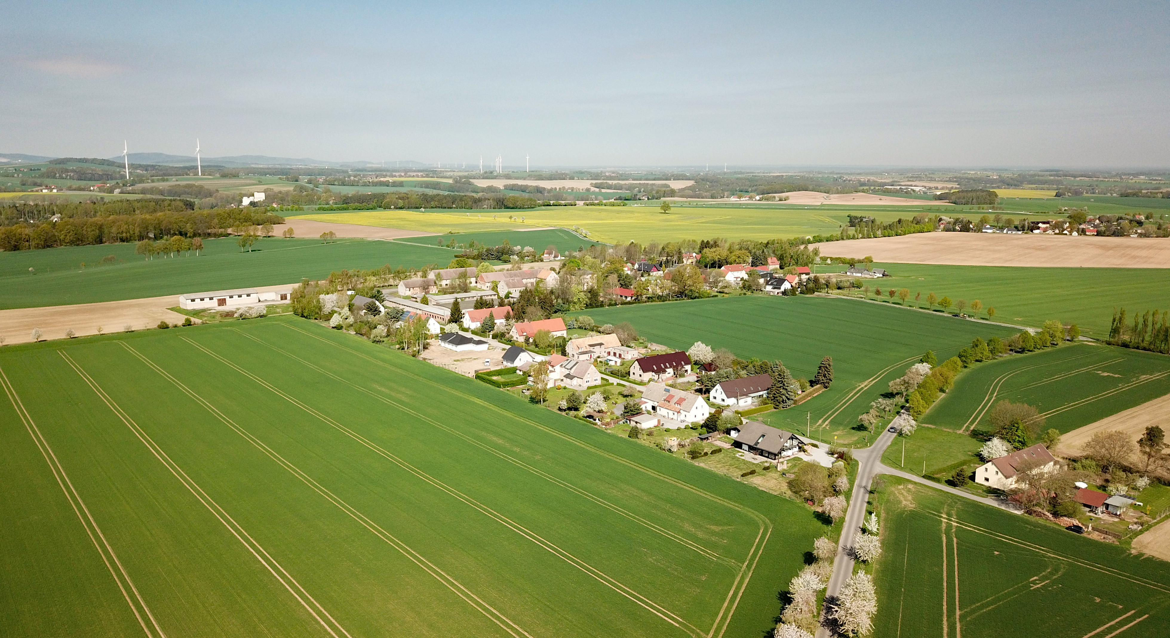 Birkau (Göda, Saxony, Germany) Hornjoserbsce: Powětrowy wobraz Brězy pola Hodźija